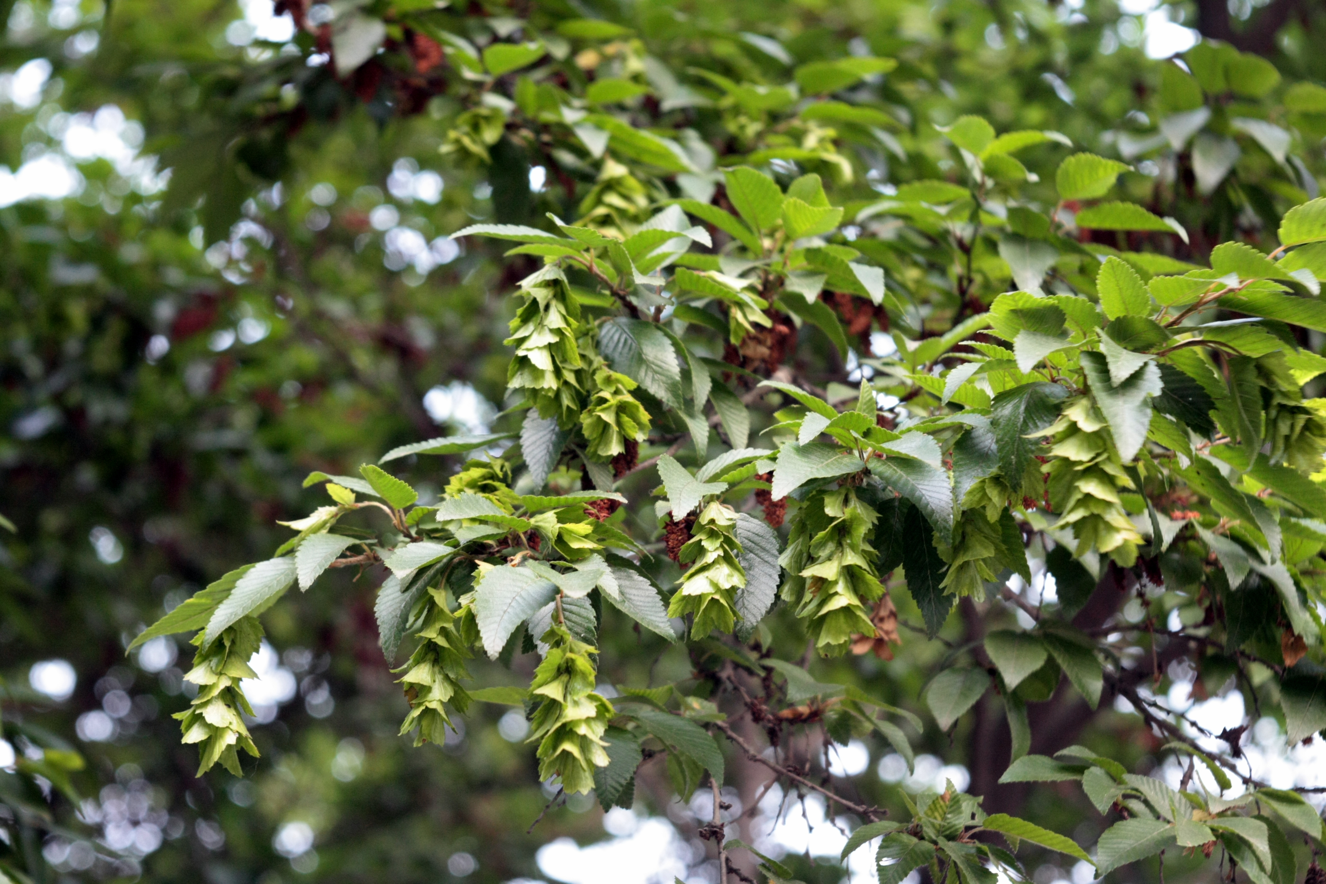 Carpinus turczaninovii in Incheon, Korea